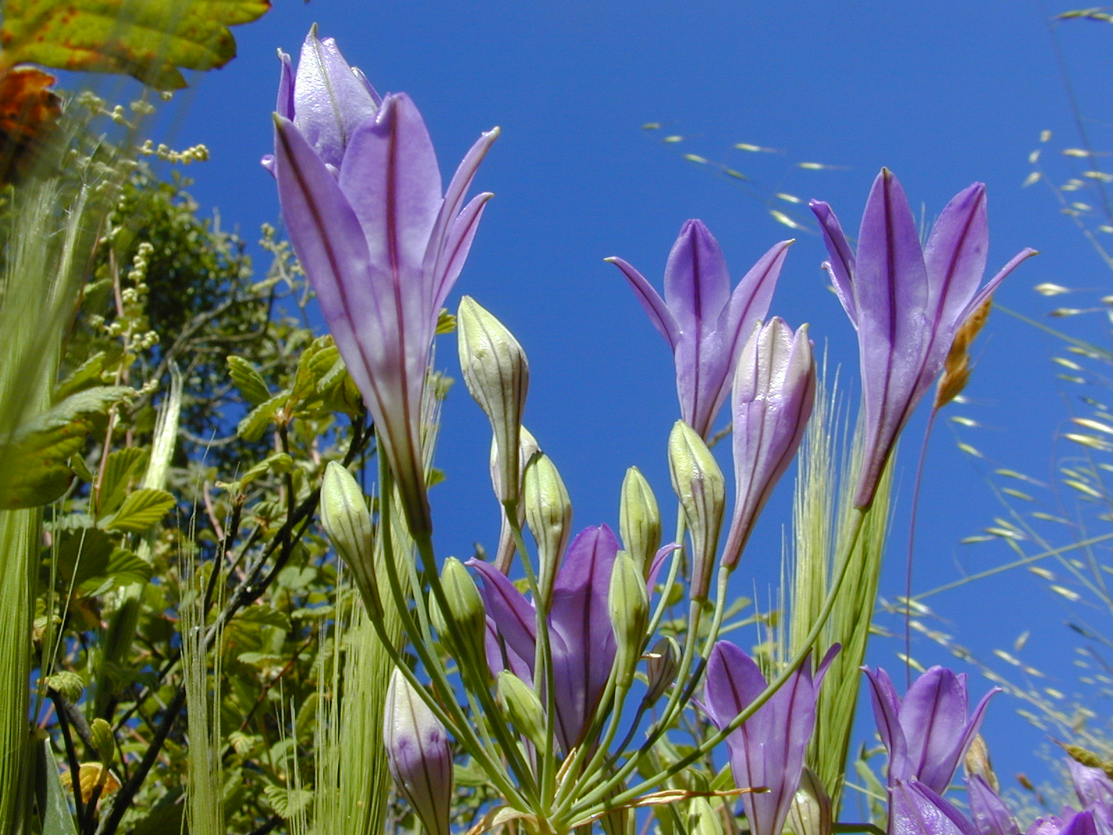 Ithuriel's Spear, Triteleia laxa. Found on the Bella Vista trail at Monte Bello Open Space Preserve. (Jepson) Part of the Midpeninsula Regional Open Space District system.